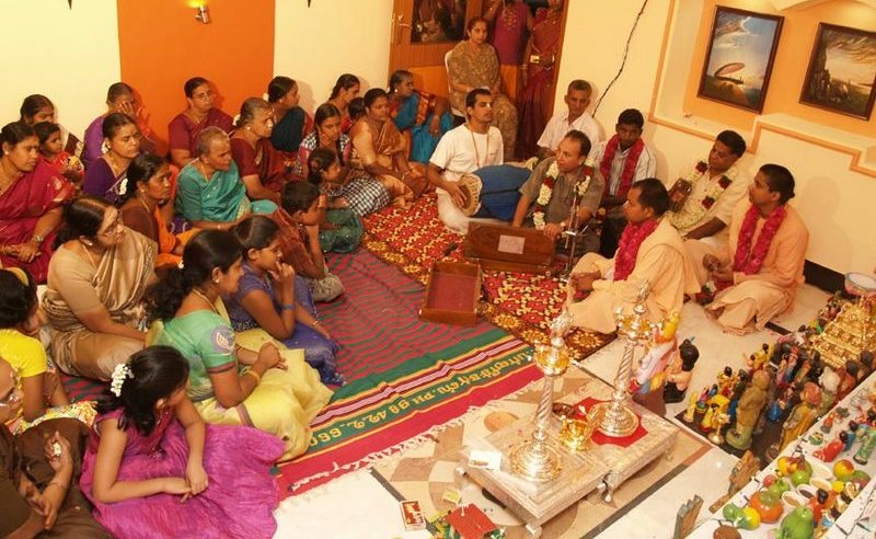 Bajan during Bommai Kolu in V.Vijayakrishnan's House. (Tamil Nadu, Coimbatore )